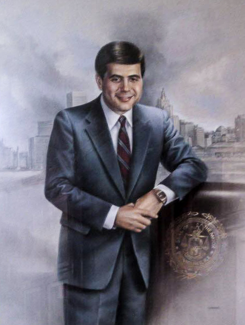 Vincent Cianci mayor of Providence RI. Official portrait in the Providence City Hall.